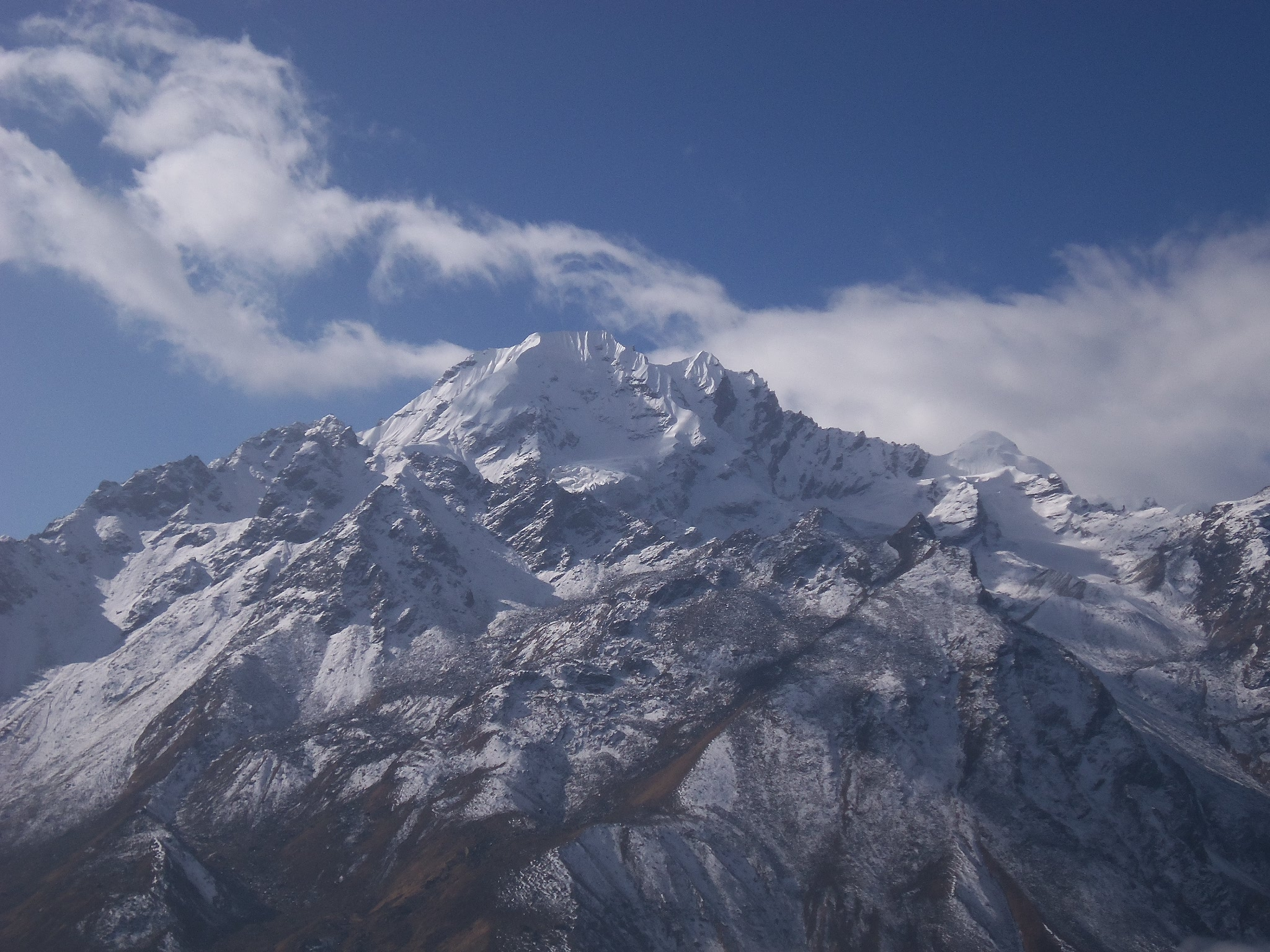 Mountain of Langtang, Rasuwa